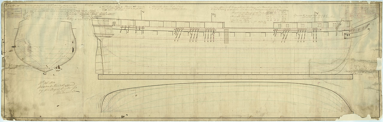 Madagascar (1822); Manilla (cancelled 1831); Druid (1825); Africaine (1827); Jason (cancelled 1831), Pique (cancelled 1832), Tigris (cancelled 1832), Statira (cancelled 1832), Stag (1830), Forth (1833), Severn (cancelled 1831), Seahorse (1830), Euphrates (cancelled 1831), Spartan (cancelled 1831), Theban (cancelled 1831), Tiber (cancelled 1831), Andromeda (1828), Meander (1840), Orpheus (cancelled 1831) Scale: 1:48. Plan showing the body plan, sheer lines, and longitudinal half-breadth for Madegascar (1822), Manilla (cancelled 1831), both building at Bombay, India. The plan was later used with alterations in November 1820 for Druid (1825), and alterations dated February 1822 for the Africaine (1827). The alterations dated 13 October 1827 relate to Jason (cancelled 1831), Pique (cancelled 1832), Tigris (cancelled 1832), Statira (cancelled 1832), Stag (1830), Forth (1833), Severn (cancelled 1831), Seahorse (1830), Euphrates (cancelled 1831), Spartan (cancelled 1831), Theban (cancelled 1831), Tiber (cancelled 1831), Andromeda (1828), Meander (1840), Orpheus (cancelled 1831), all 46-gun Fifth Rate Frigates. MADAGASCAR 1822